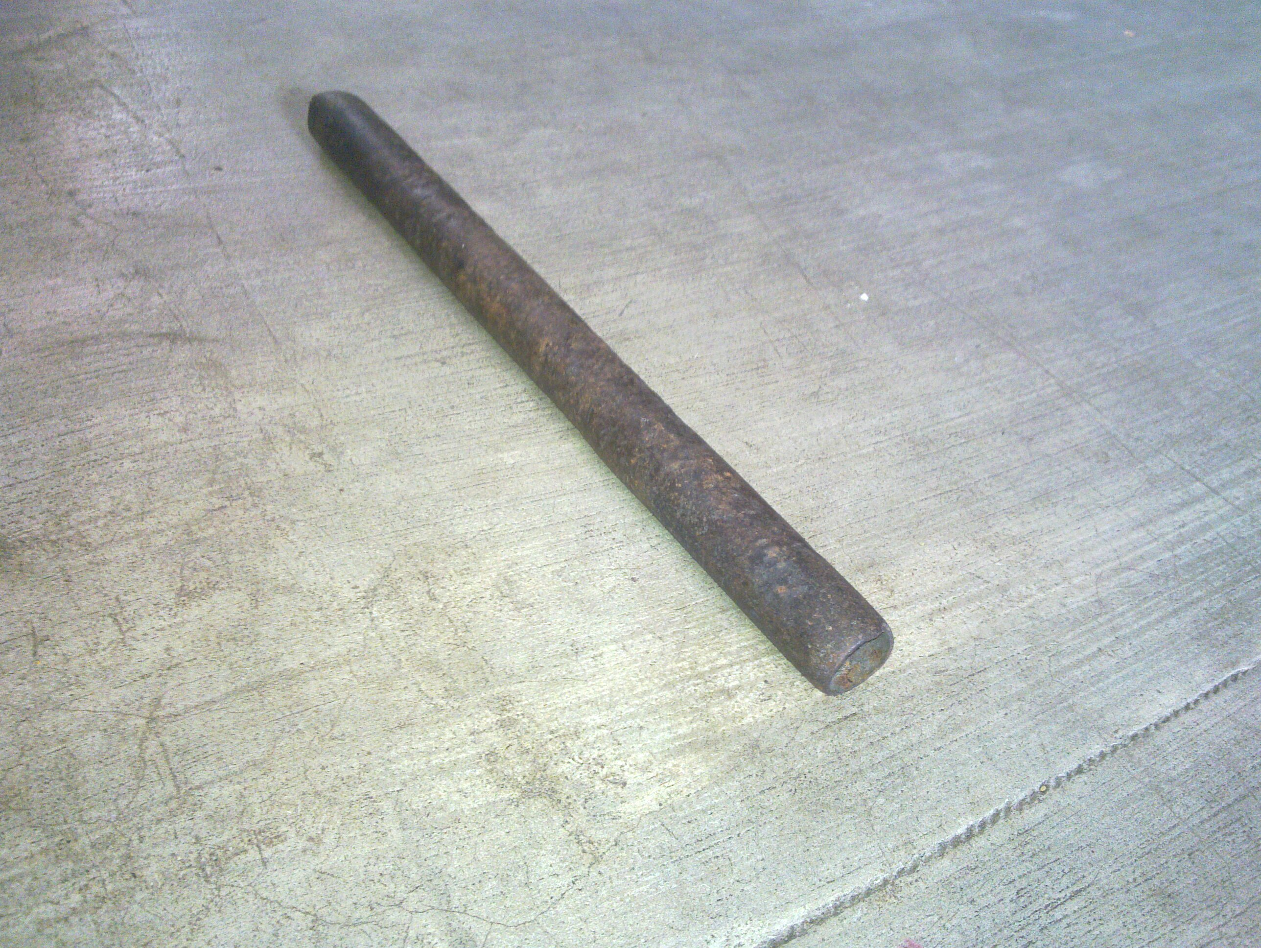 oothu manai or oothu kuzhal is a tool - to make fire in tamilnadu countryside